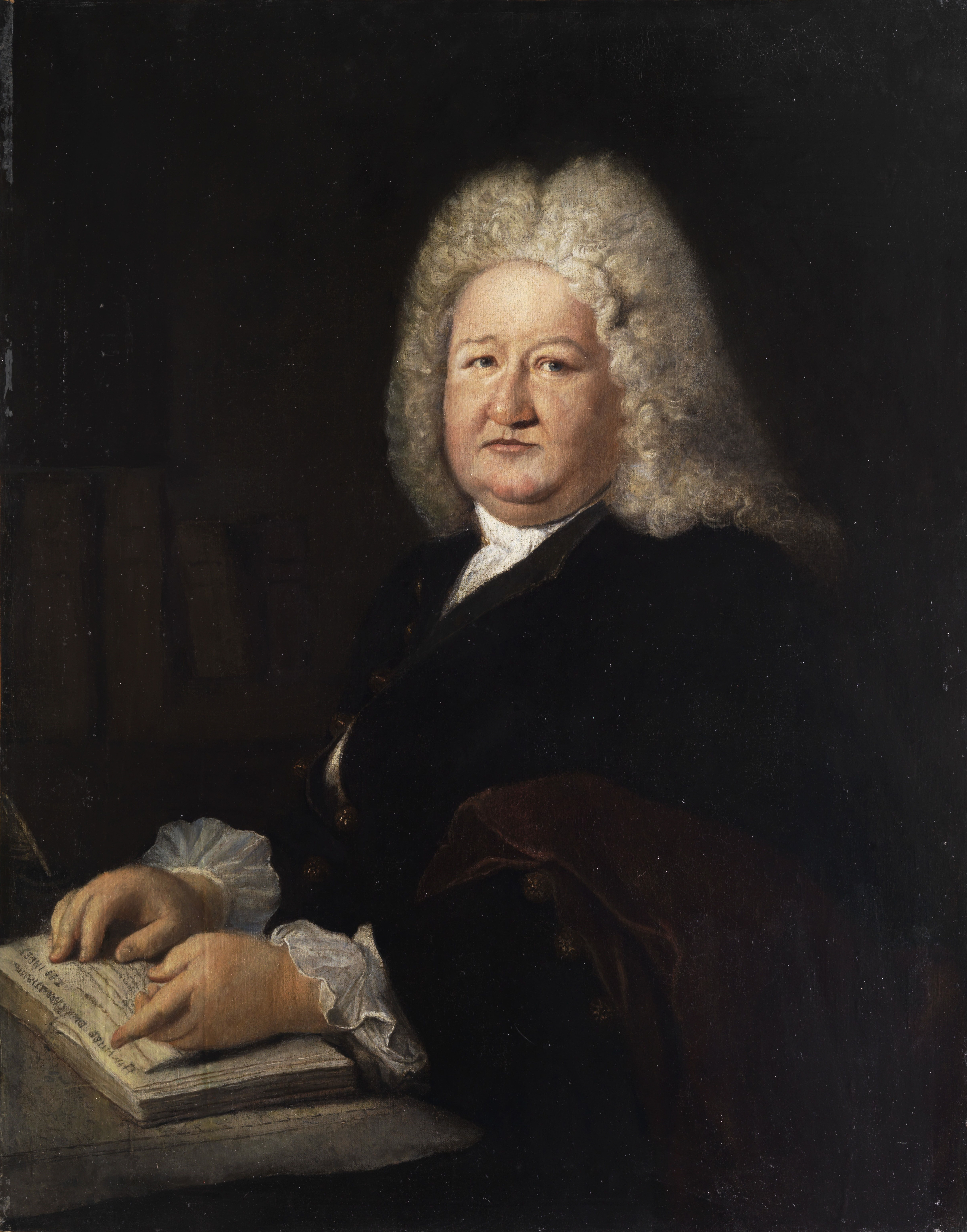 Portrait Mathurin Veyssière de La Croze (1661–1739) (with his book "Histoire du Christianisme des Indes"). Oil on canvas. 101 x 76 cm. (Original in Münzkabinett Berlin, Katalog 197a)